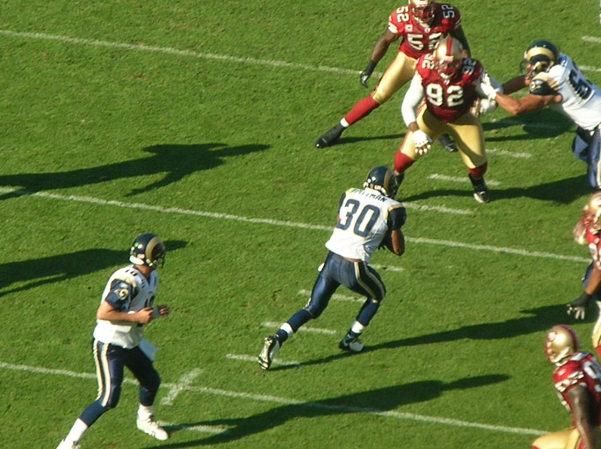 St. Louis running back Antonio Pittman carries the ball during an away game against the San Francisco 49ers. The 49ers won 35-16.